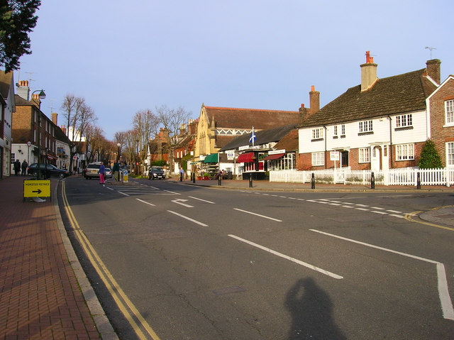 High Street, Lindfield This is the lower end next to the junction with Lewes Road (B2111). The street has a small Somerfield supermarket and a number of small shops along with four pubs.